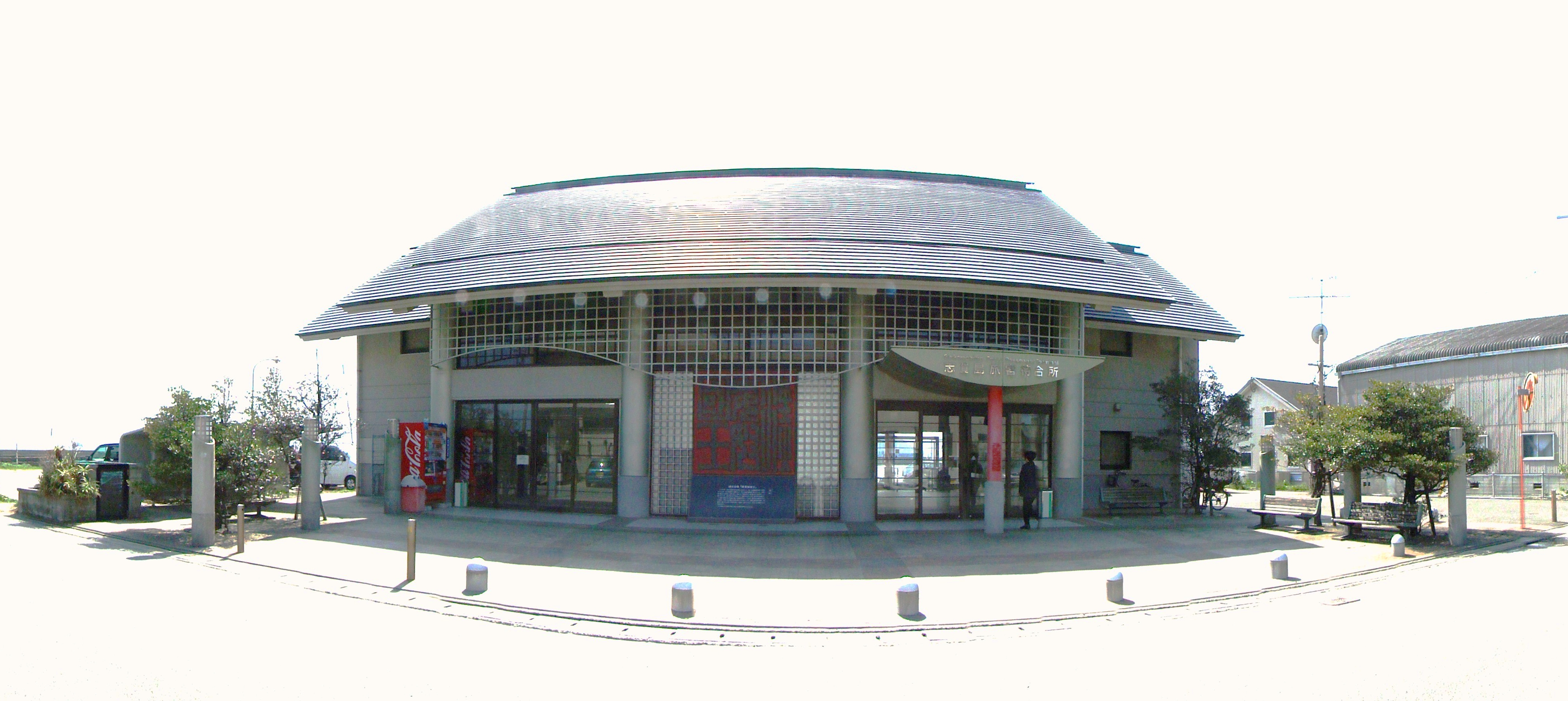 Shikanoshima Port in Fukuoka, Fukuoka pref., Japan.